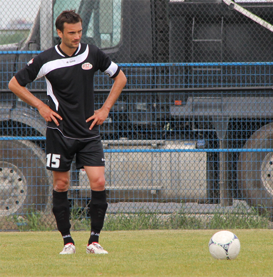 Nenad Begović takes a free-kick against TFC Academy at Downsview Park in Toronto, 2012.